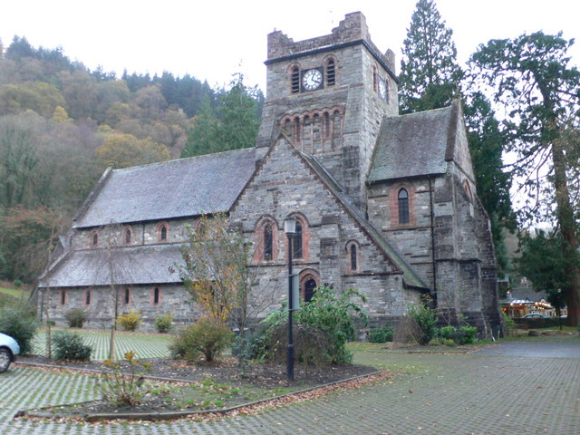 St Mary's Church, Betws-y-Coed St Mary's Church is located in the centre of Betws-y-Coed, opposite Cae Llan. It was built in 1873, of a mixture of stone from Ancaster in Lincolnshire, and quarried locally.